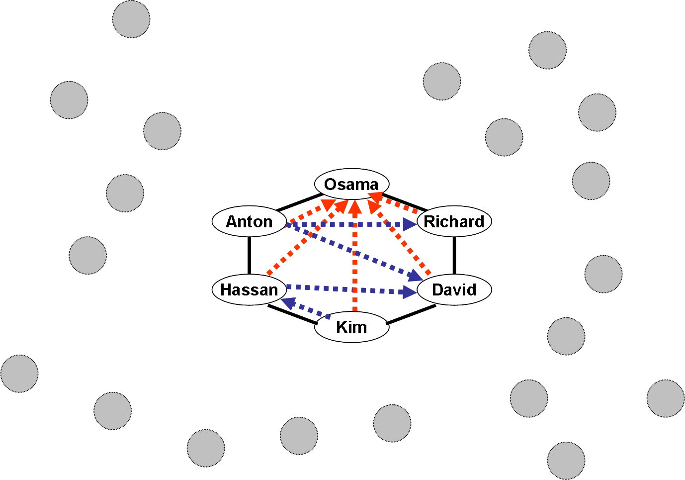 Core for al-Qaeda style cell system